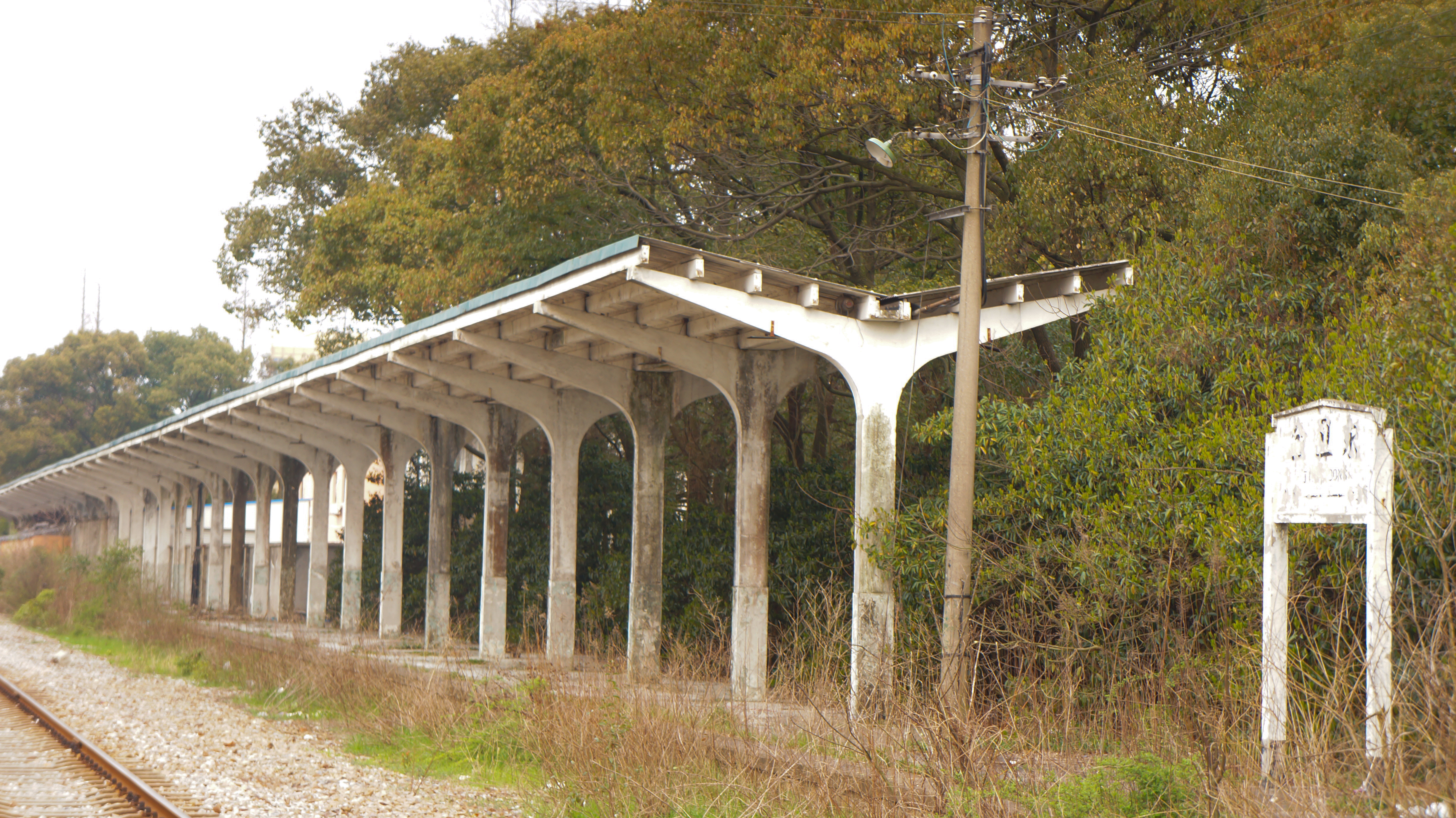 201603 Jinweidong Station1